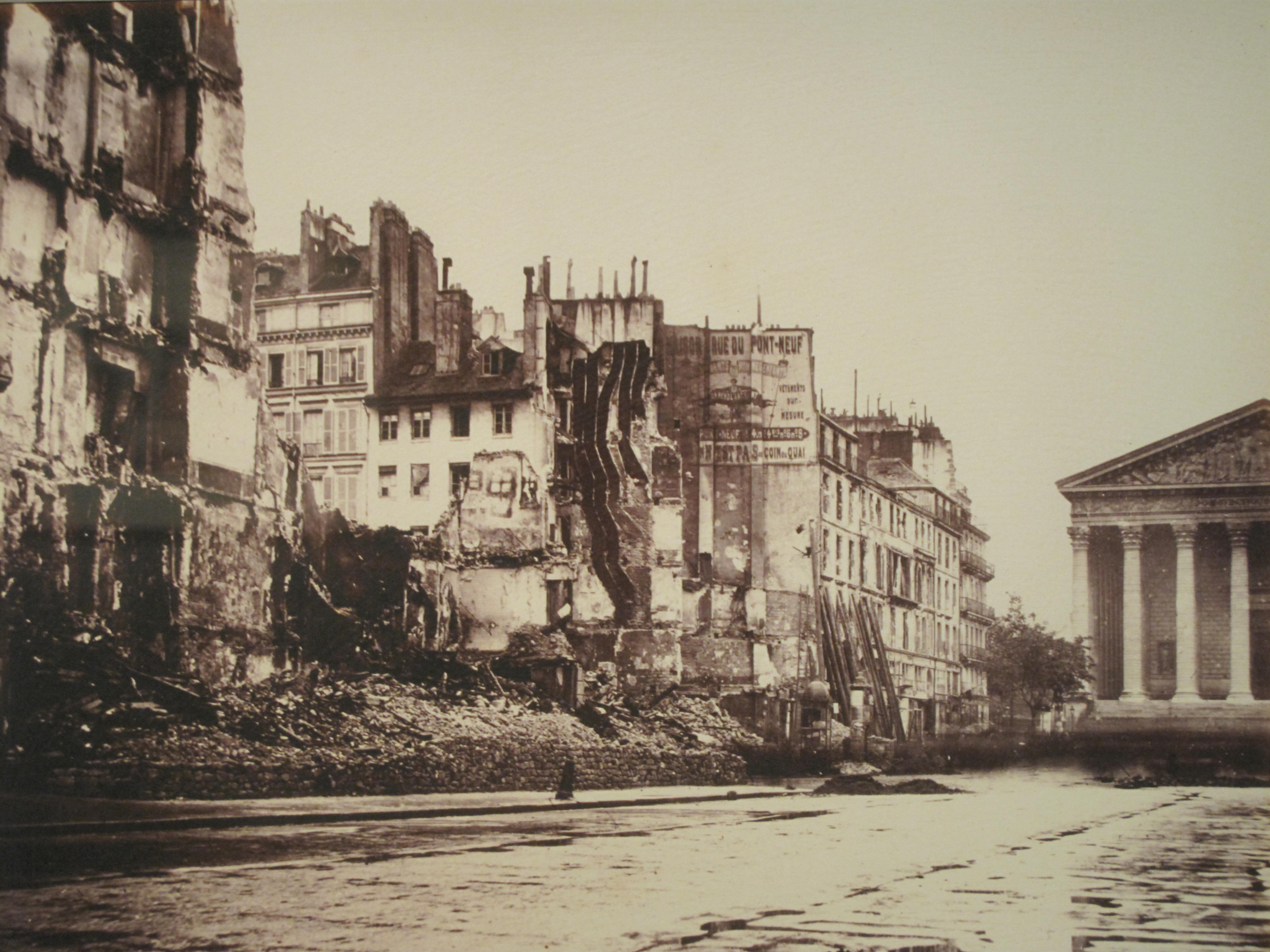 The rue Royale with in the background the church of la Madeleine after the fights and the fires of the Paris Commune, Paris 8th arr.